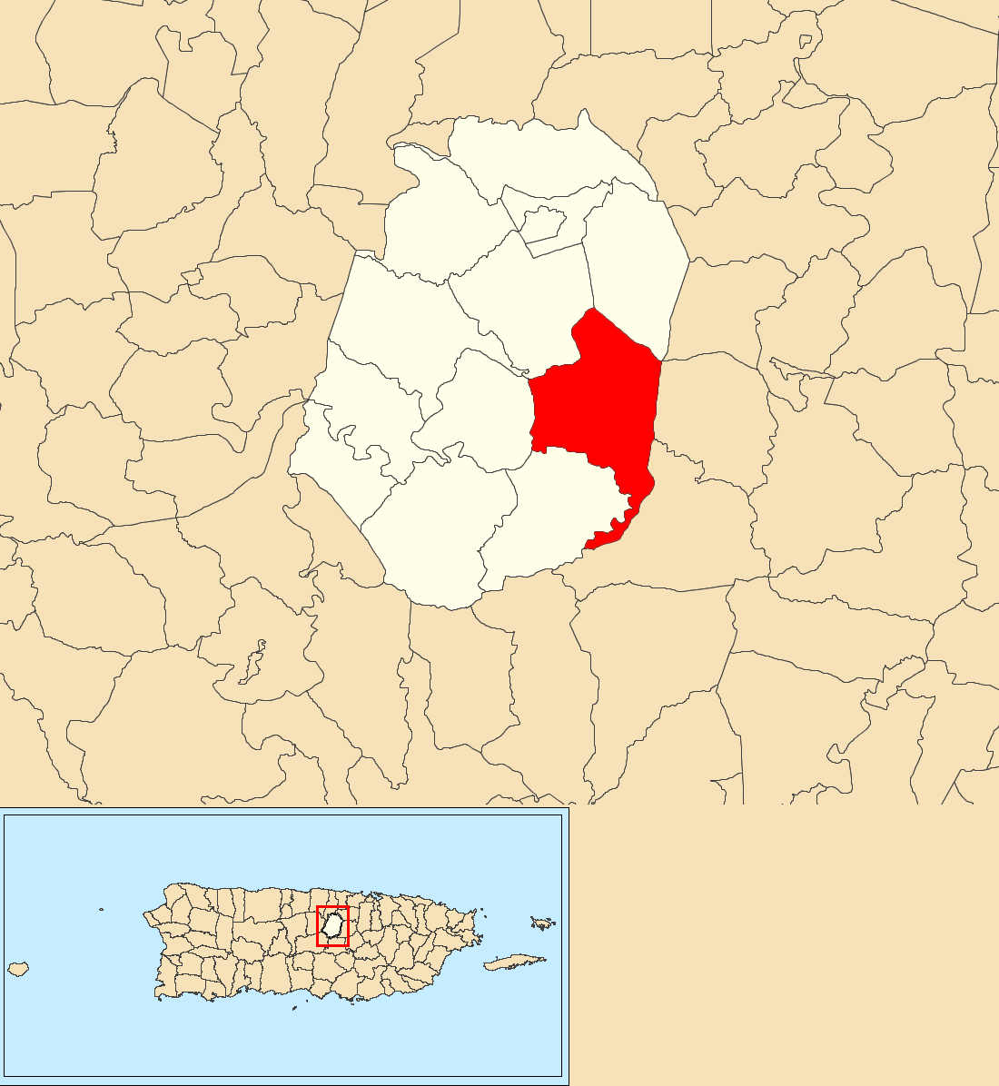 Palos Blancos, Corozal, Puerto Rico locator map